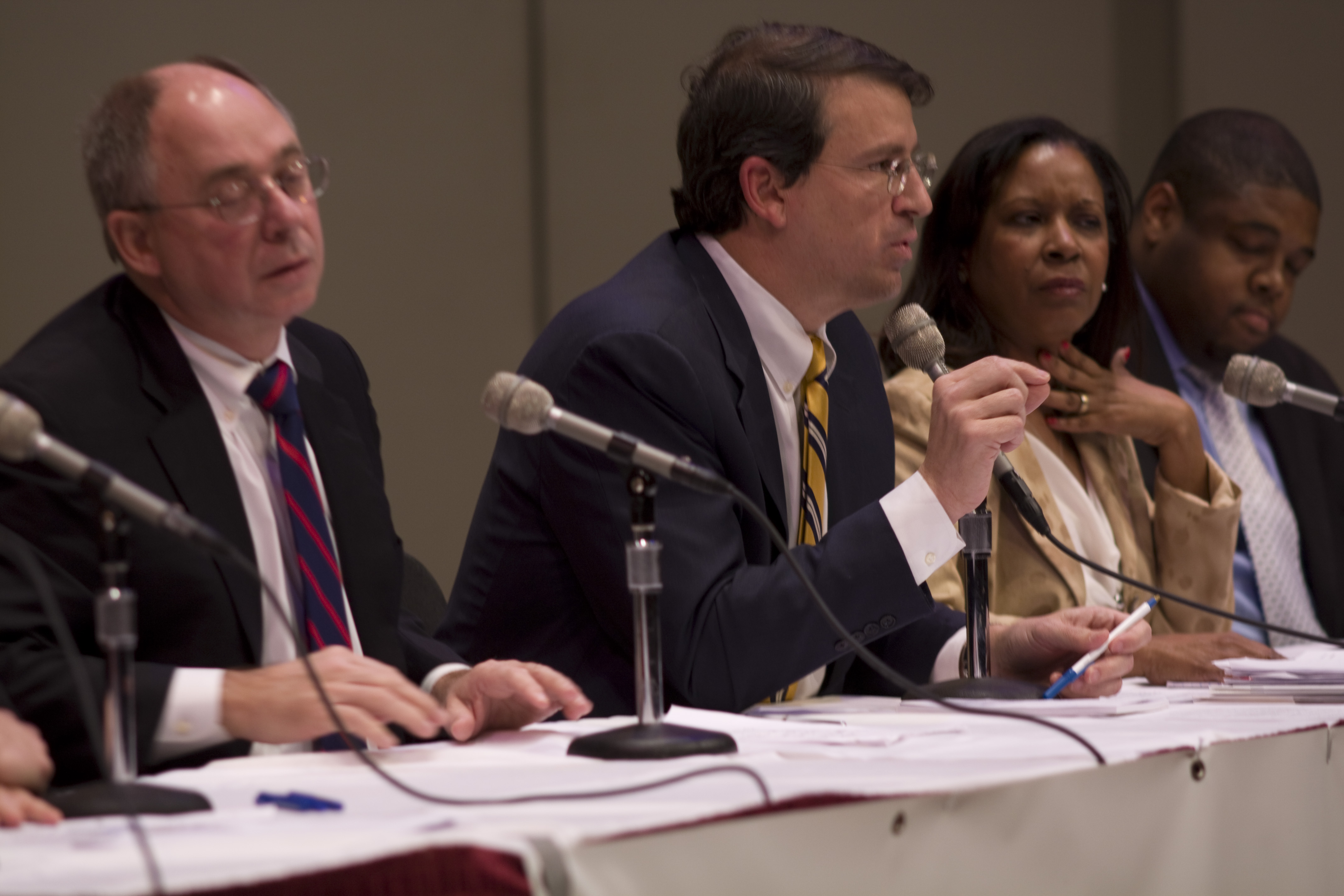 Candidates for Mayor of New Orleans at debate forum, Loyola University. Left to right: Rob Couhig, John Georges, Nadine Ramsey, James Perry.